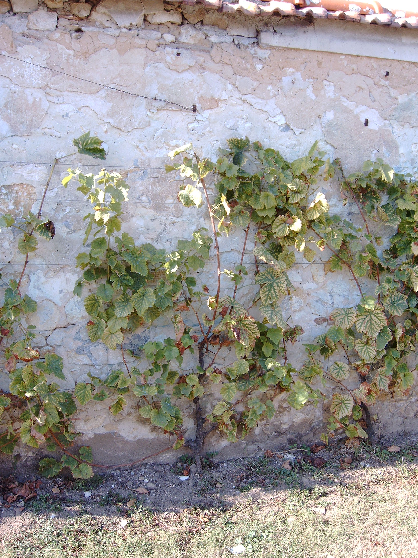 Salomon vineyard in Thomery, Seine-et-Marne, France